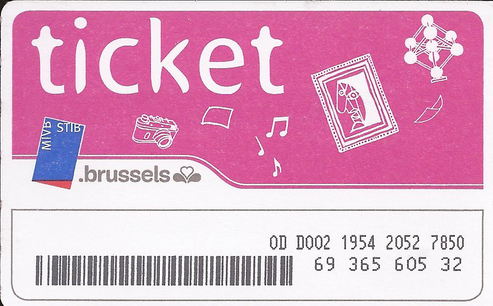 New Ticket with a chip from STIB